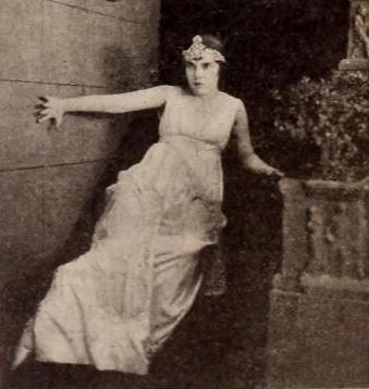 Still from the American comedy film The Danger Game (1918) with Madge Kennedy, on page 25 of the March 16, 1918 Exhibitors Herald.